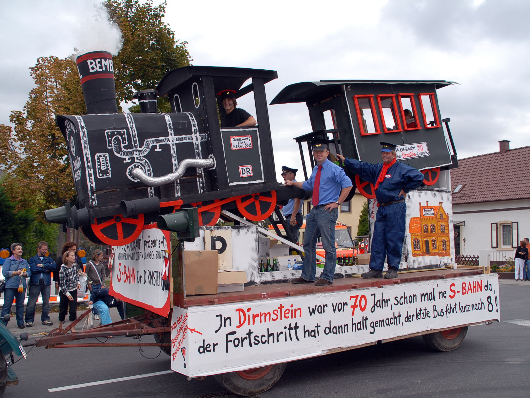 In memory of the former local railway in Dirmstein, a simple not true to the detail model on a parade float.